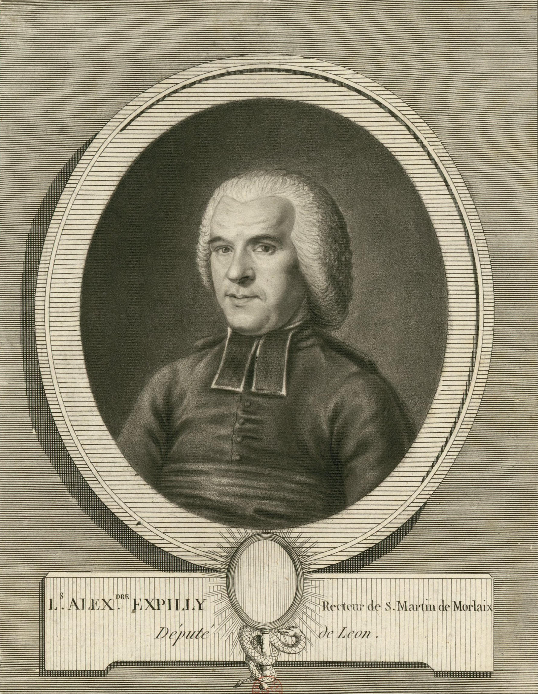 Louis-Alexandre Expilly de la Poipe, made a bishop by Talleyrand, the revolutionary Bishop of Autun. The consecration eventually took place on February 24, 1791.